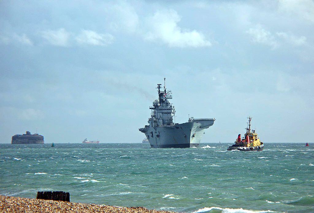 HMS Illustrious preparing to enter Portsmouth harbour photographed at Portsmouth, UK, on 23 October 2008.